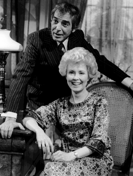 Photo of Paul Stevens (Brian Bancroft) and Beverlee McKinsey (Iris Carrington) from the daytime drama Another World.